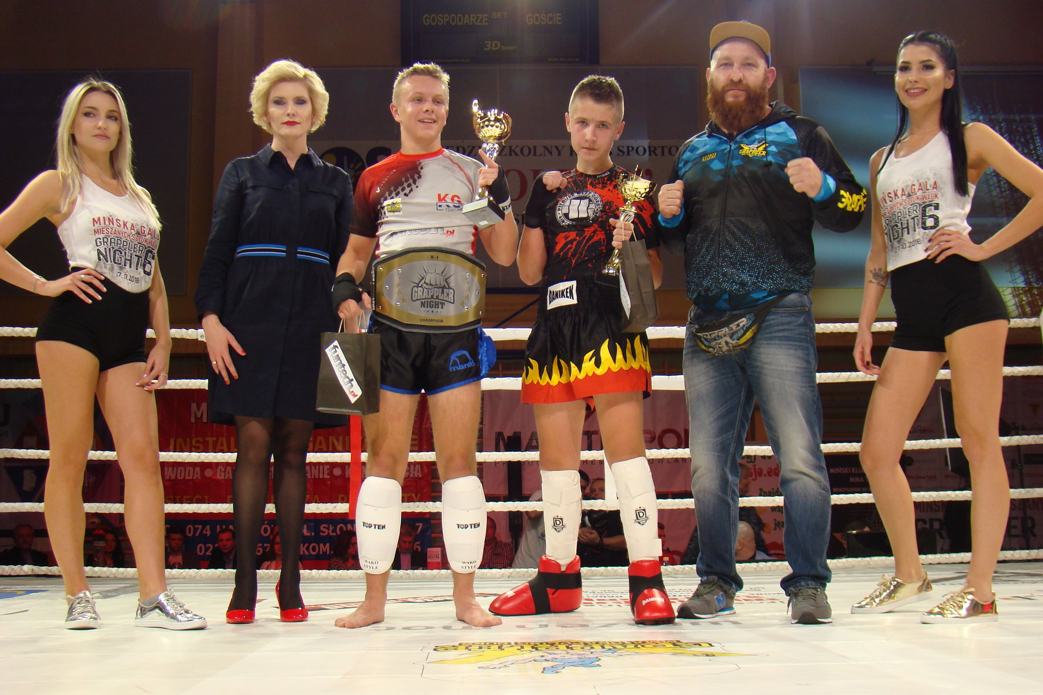 Grappler Night 6